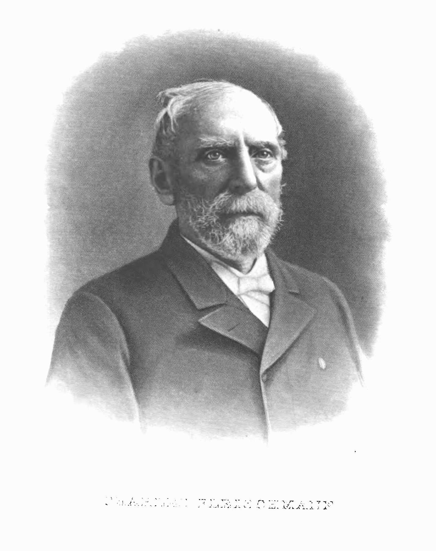 Depicted person: Charles Louis Fleischmann – Czech-American businessman